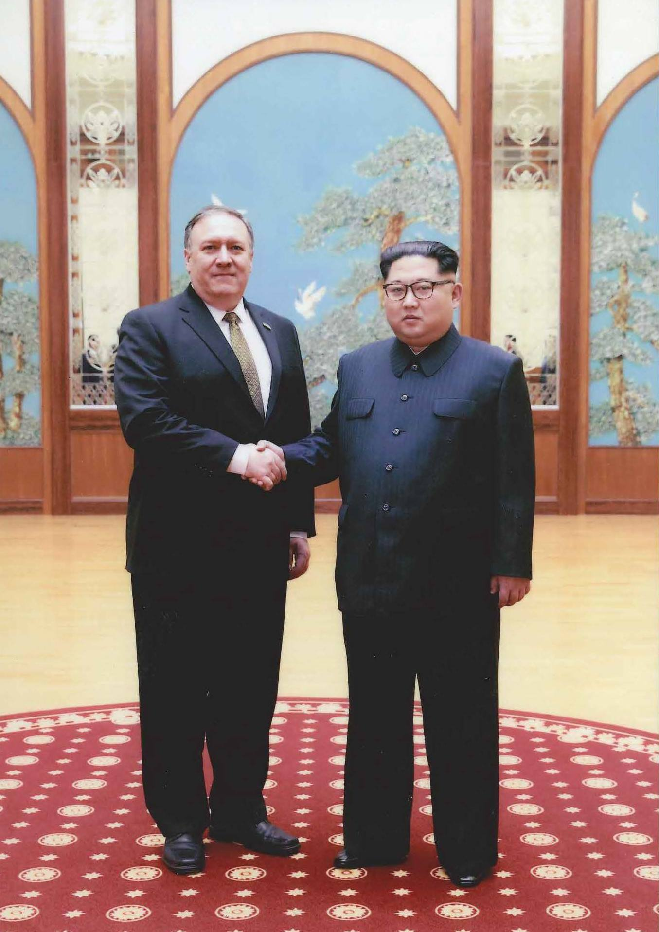 Photos of Secretary of State Pompeo in North Korea. Secretary Pompeo will do an excellent job helping President Trump lead our efforts to denuclearize the Korean Peninsula.